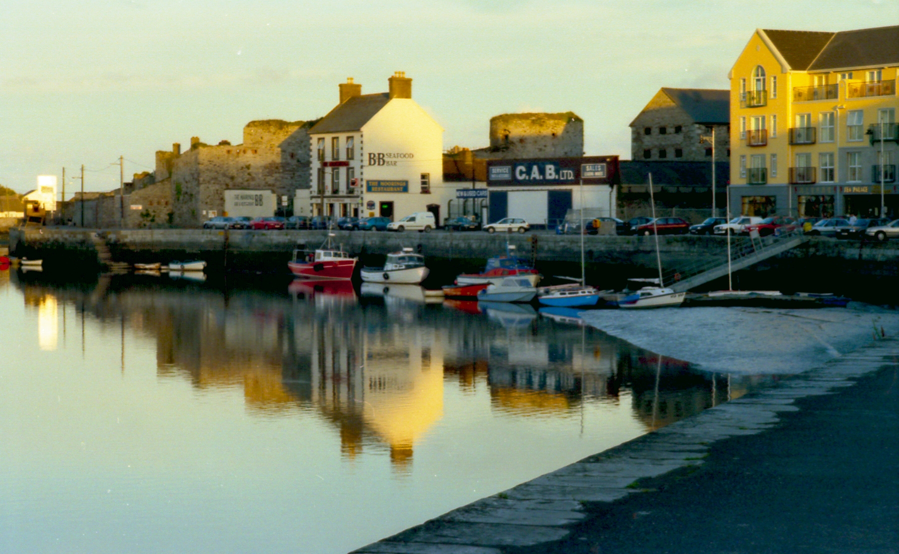 Dungarvan Harbour